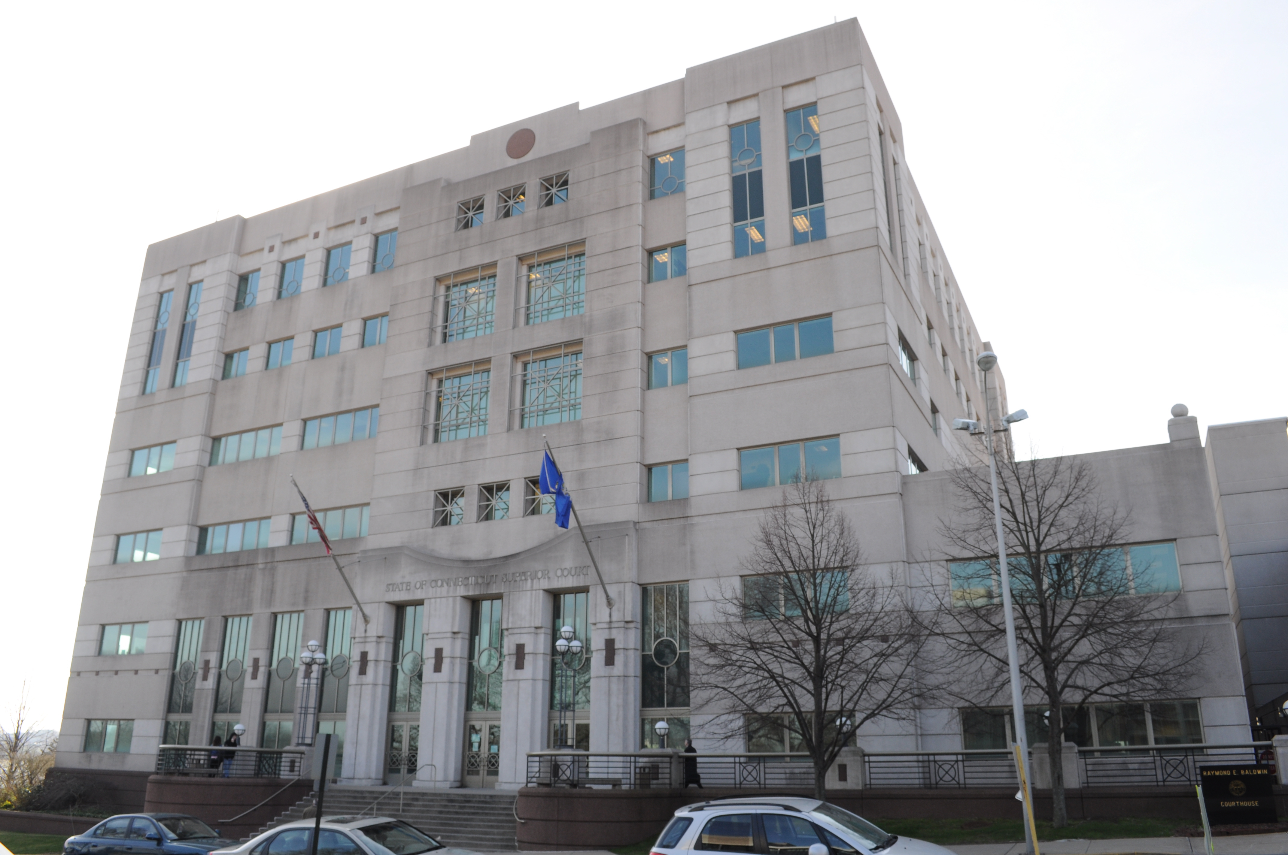 State of Connecticut Superior Court Raymond E. Baldwin Courthouse, Middletown, Connecticut, USA, on Court Street near the Connecticut River. Built late 1950s.